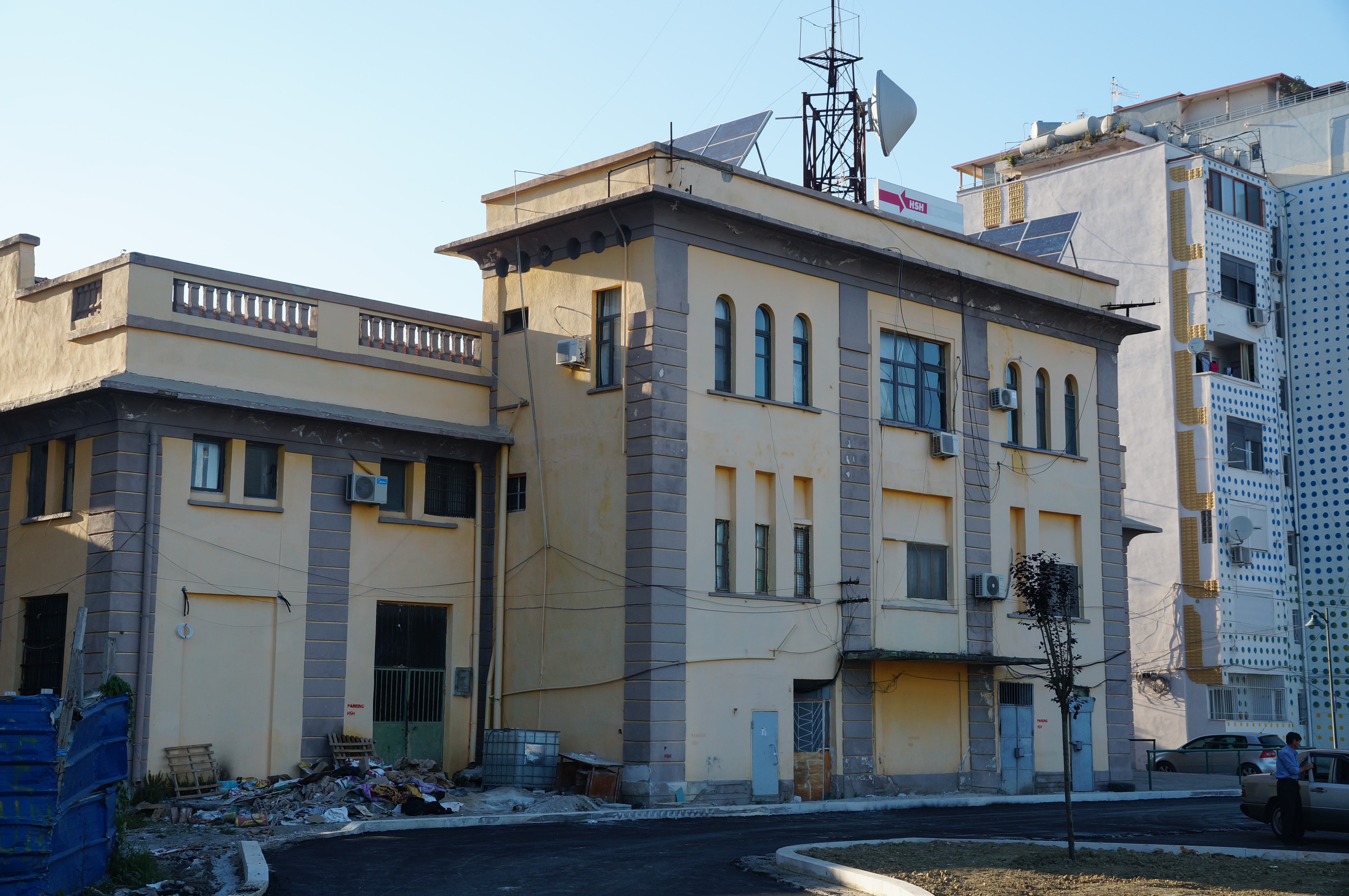 The old railway station of Durrës, today the headquarters of Albanian railway company Hekurudha Shqiptare